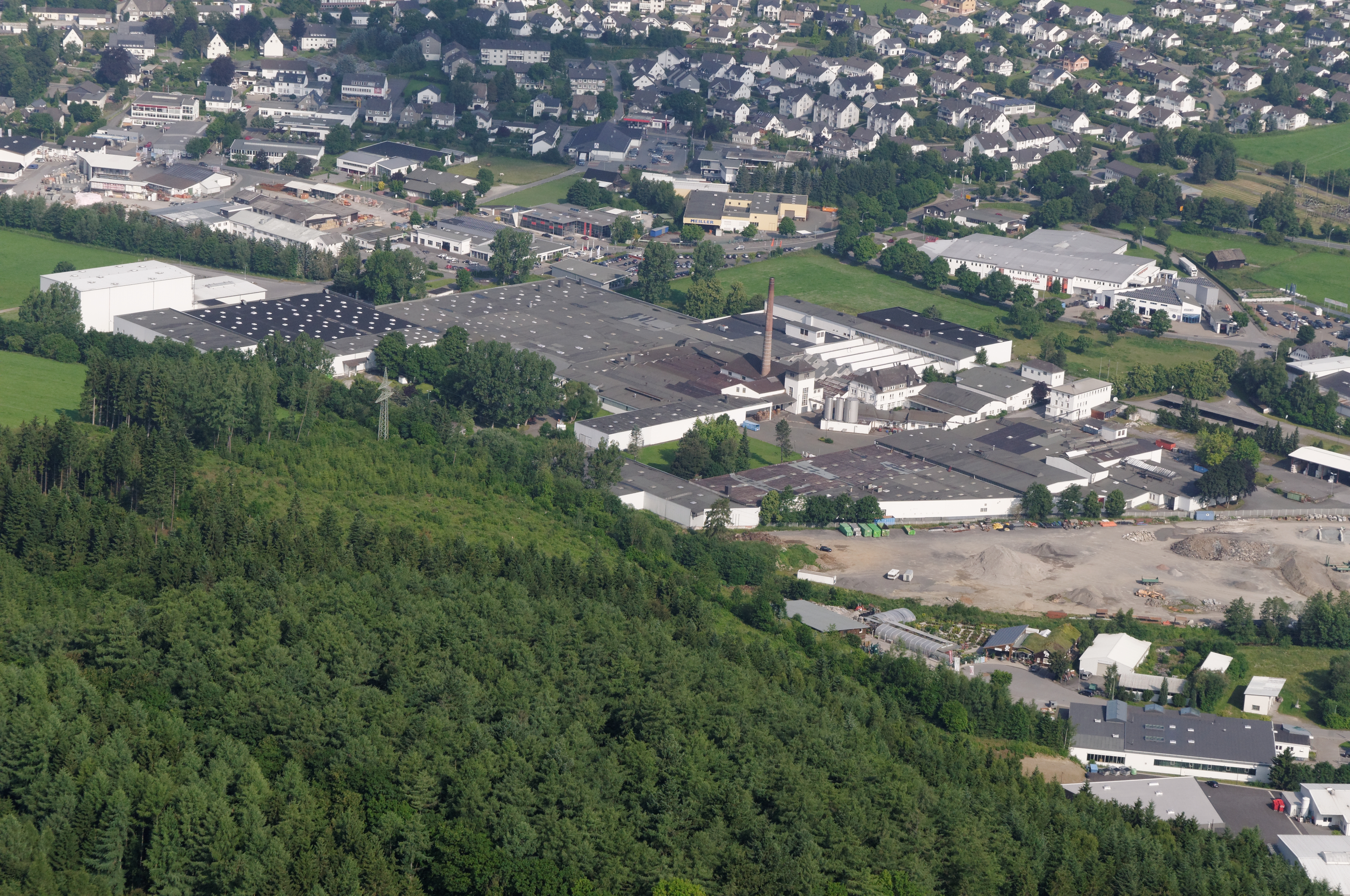 Fotoflug Sauerland-Ost: Stadt Schmallenberg → Gewerbegebiet Kutscherweg / Lake The making of this document was supported by the Community-Budget of Wikimedia Germany.